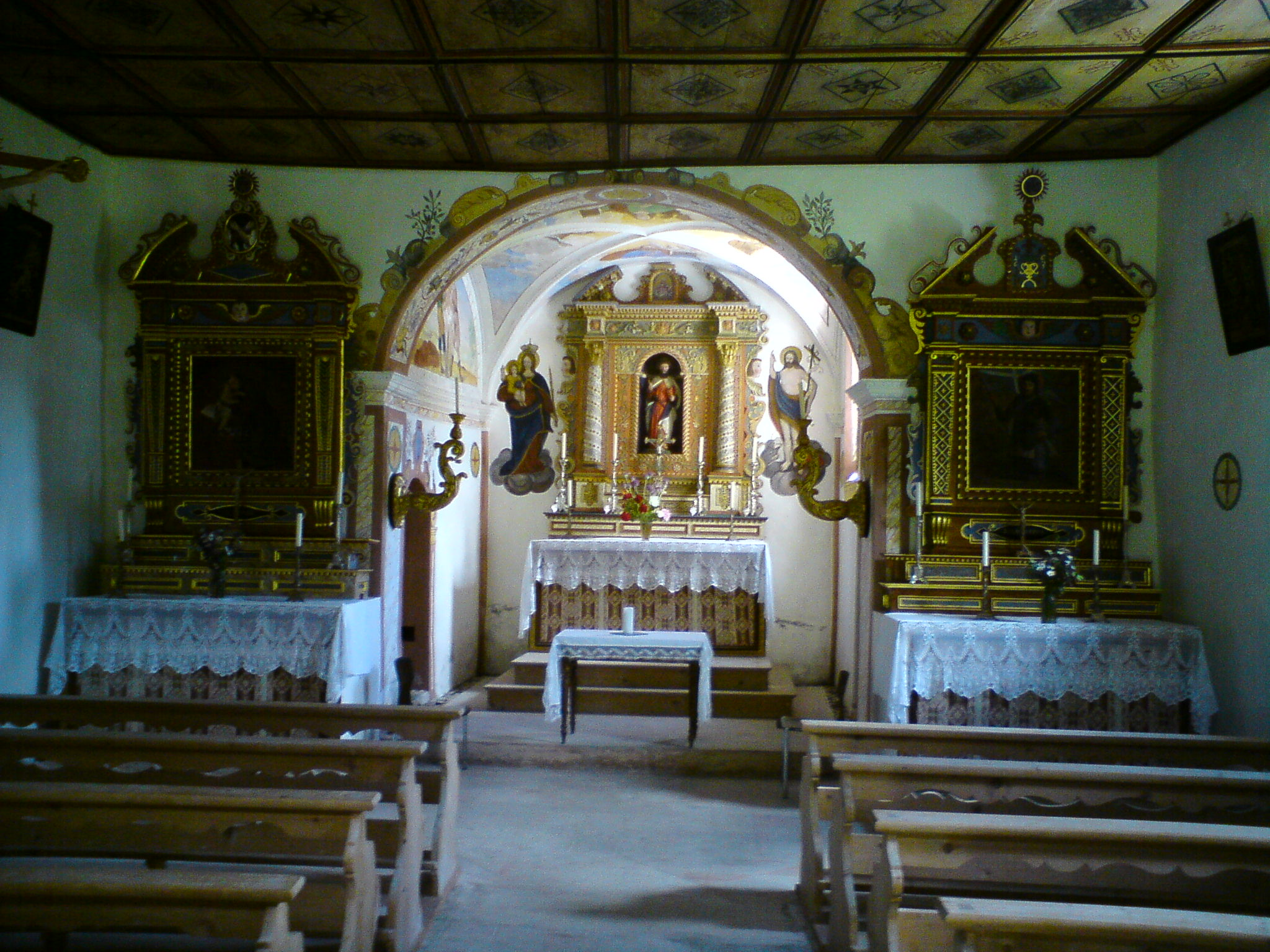 Chapel Salaschigns, interior view, Riom-Parsonz, Salouf, Grisons, Switzerland Rumantsch: Baselgia da Salaschigns, da davains, Riom-Parsonz, Salouf, Grischun, Svizra